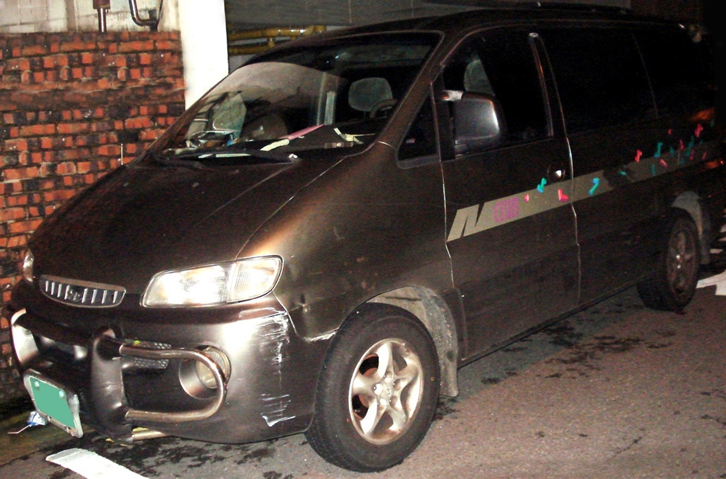 Hyundai Starex